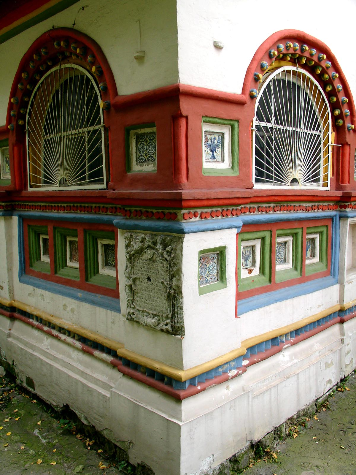 Detail of St. Nicholas church in Bersenevka, Moscow, Russia